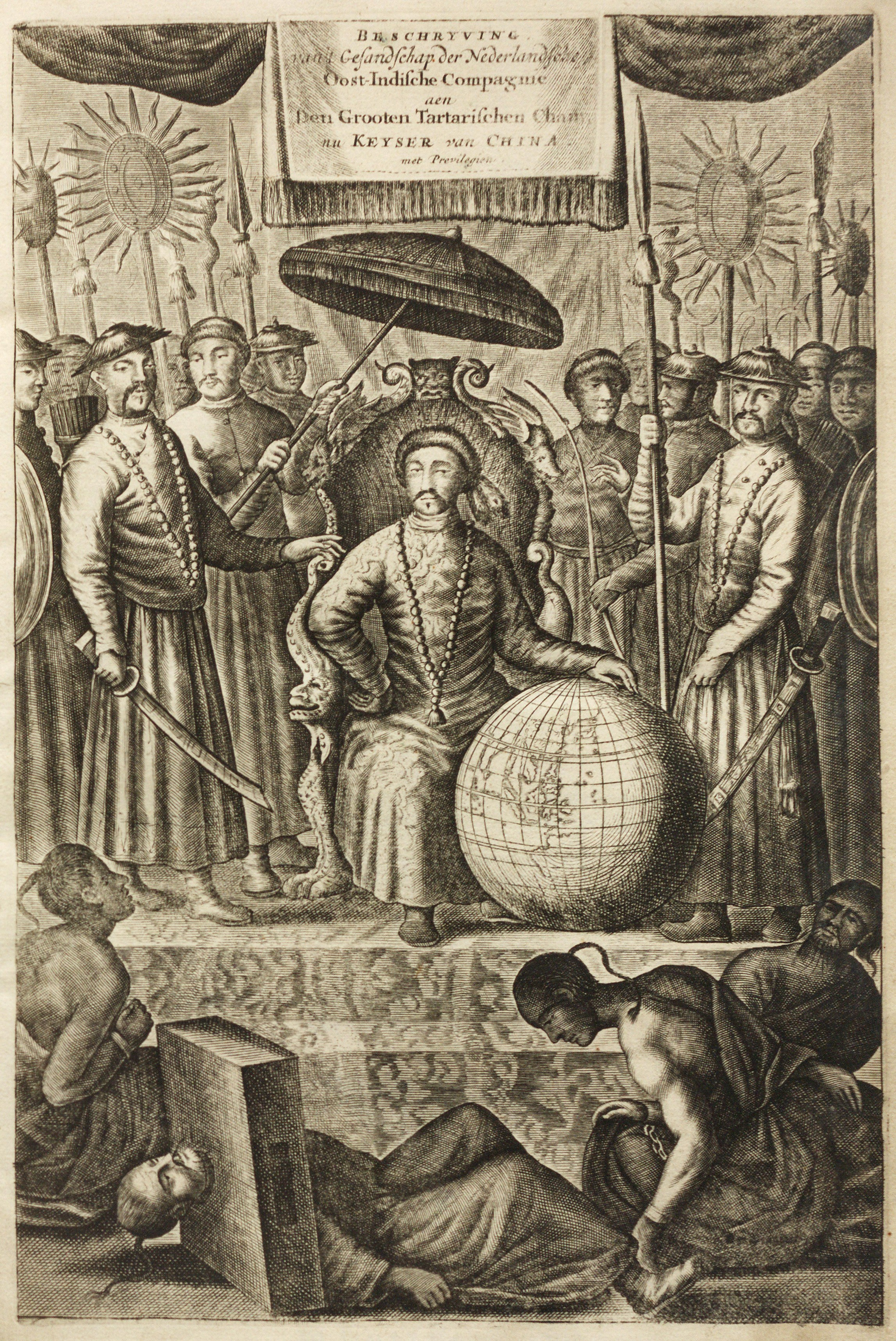 Illustration from Johan Nieuhof: Het Gezandtschap der Neêrlandtsche Oost-Indische Compagnie - title plate